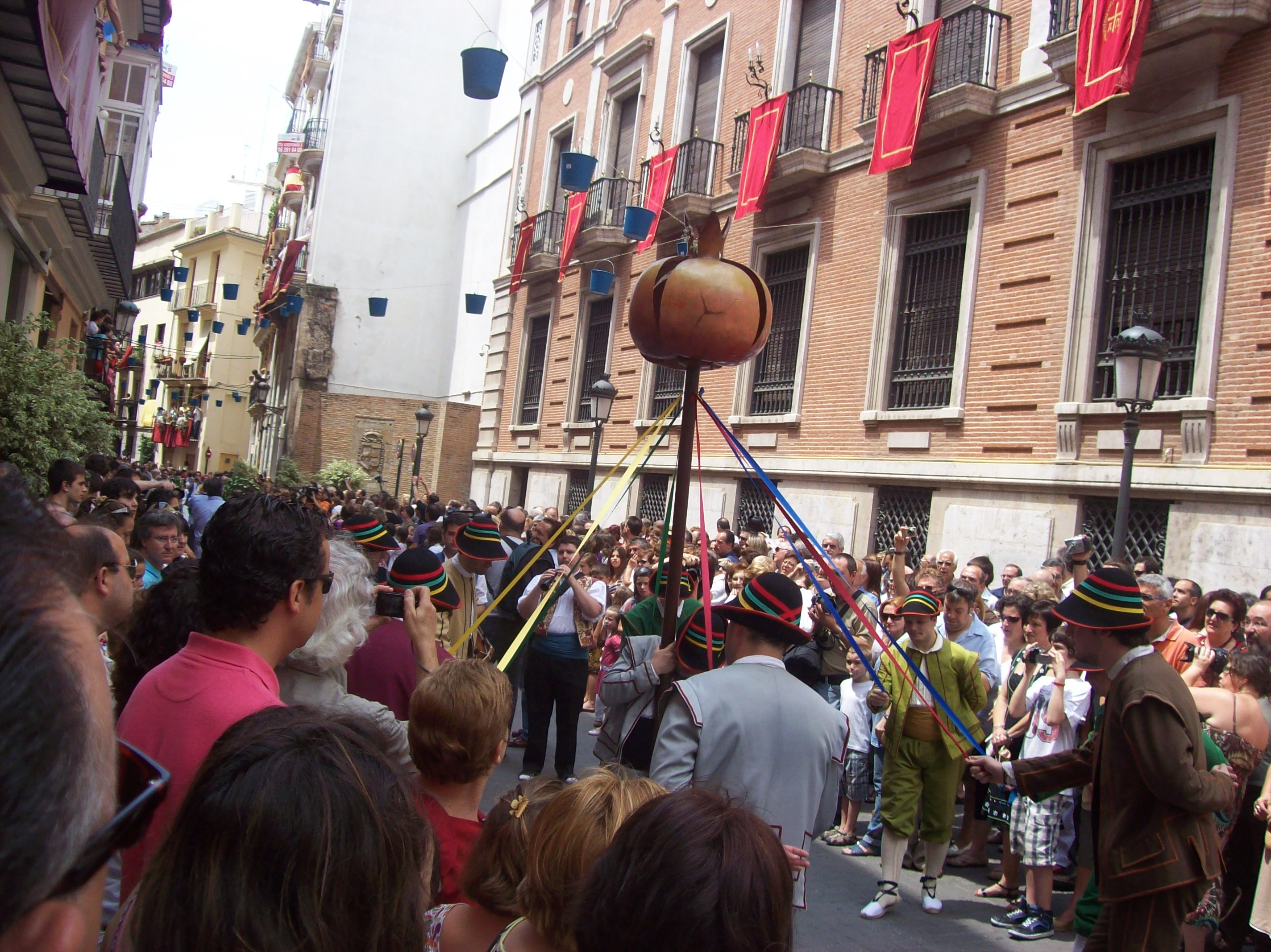 Una de las danzas de la fiesta del Corpus valenciano.